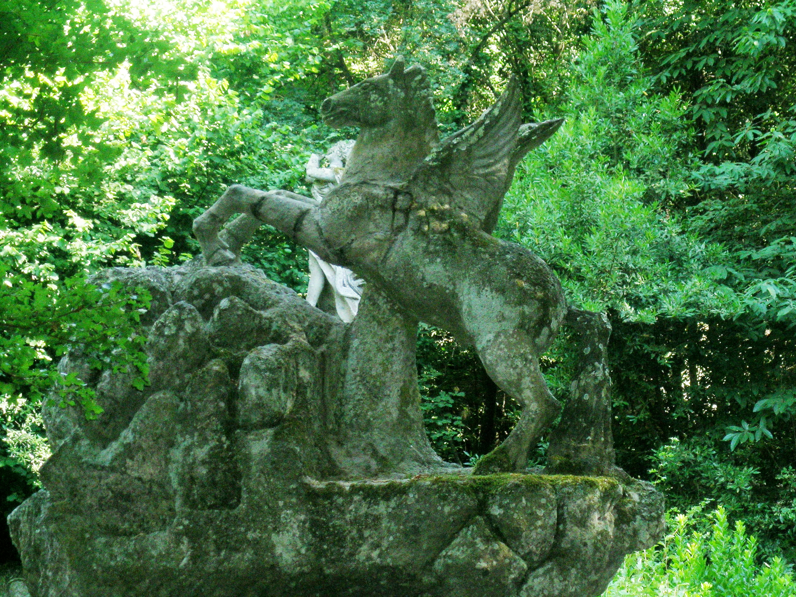 Pegasus in the Park of monsters, close to Bomarzo, Italy.